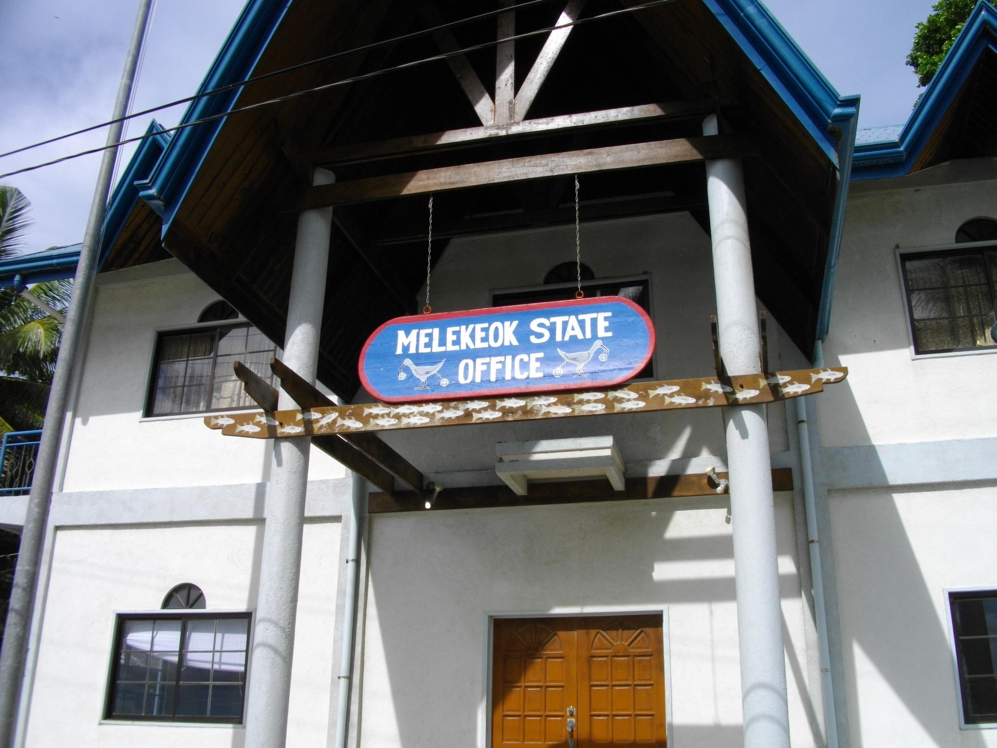 Melekeok State Government Building